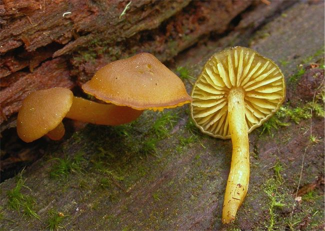 The mushroom Callistosporium luteo-olivaceum (Berk. & M.A. Curtis) Singer. Specimen photographed in Sam McDonald County Park, San Mateo Co., California.